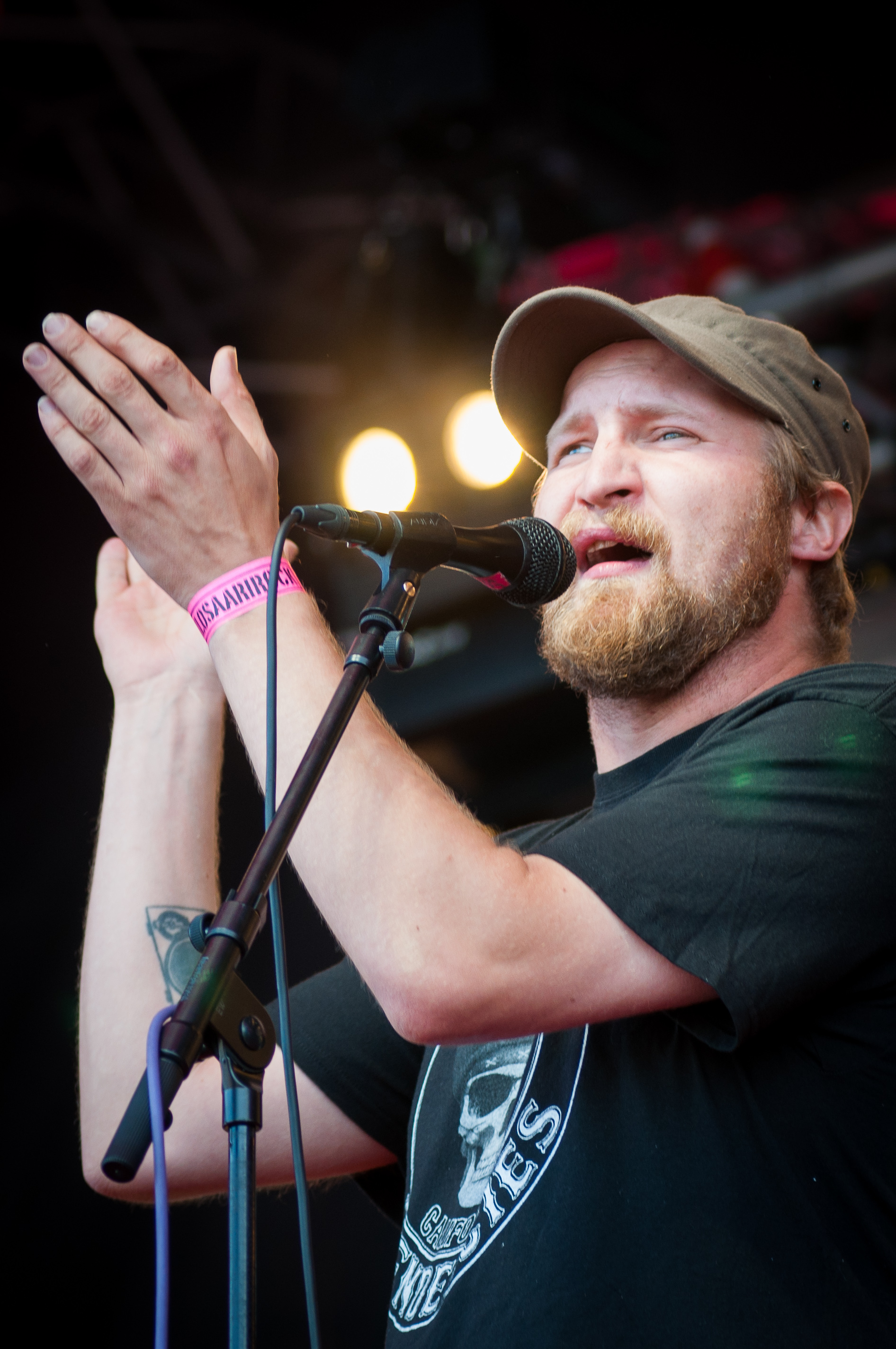 Finnish rapper Paleface performing at the 2012 Ilosaarirock festival in Joensuu, Finland.